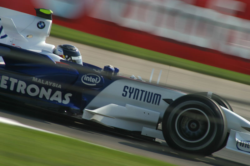 Sebastian Vettel driving for BMW Sauber at the 2007 United States Grand Prix.